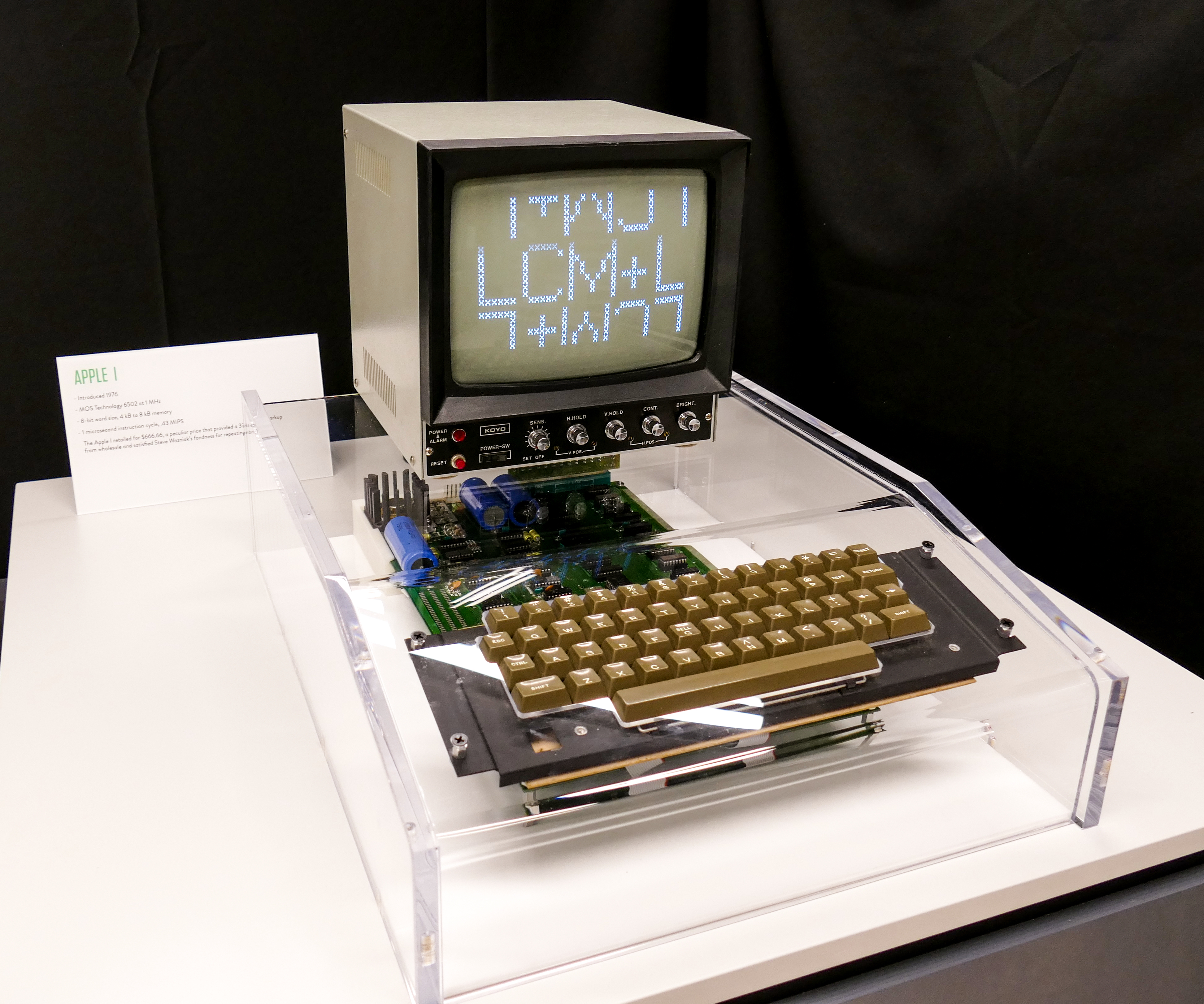 Living Computers: Museum + Labs Apple I microcomputer in polycarbonate case, which is available for visitors to use.